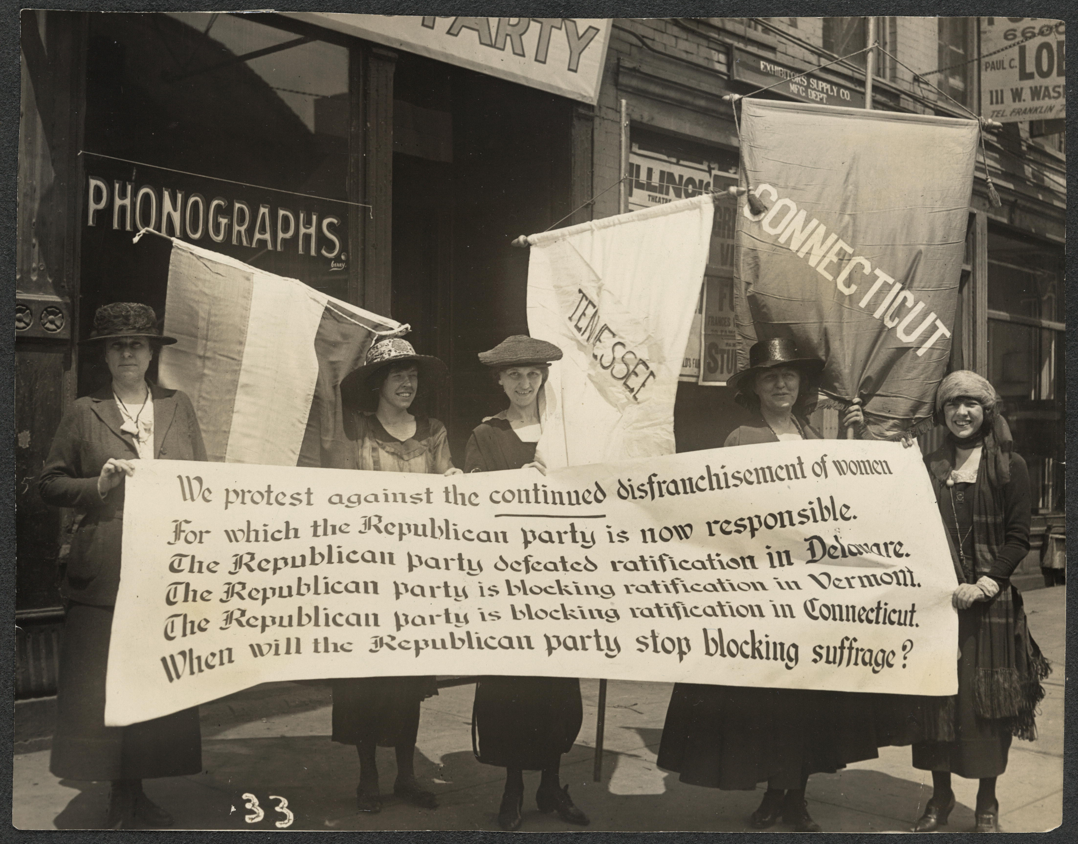 Photograph of women holding banners outside in front of stores. Banners read "Tennessee," "Connecticut," and "We protest against the continued disfranchisement of women for which the Republican party is now responsible. The Republican party defeated ratification in Delaware. The Republican party is blocking ratification in Vermont. The Republican party is blocking ratification in Connecticut. When will the Republican party stop blocking suffrage?" Abby Scott Baker, Betty Gram, Elsie M. Hill, and Sue Shelton White all spent time in jail for their participation in NWP activism. White, of Jackson, Tenn., was state chairman of the NWP and one of the editors of The Suffragist. She was a court and convention reporter for ten years and in 1918 was appointed by the Governor of Tennessee to the State Commission for the Blind. She was active with the United Daughters of the Confederacy and the Daughters of the American Revolution, as well as the Federation of Women's Clubs and the Parent Teachers' Association. She was arrested Feb. 9, 1919, and served five days in District Jail for participating in watchfire demonstration. She soon after participated in the NWP's "Prison Special" tour of the United States. Doris Stevens, Jailed for Freedom (New York: Boni and Liveright, 1920), 370.